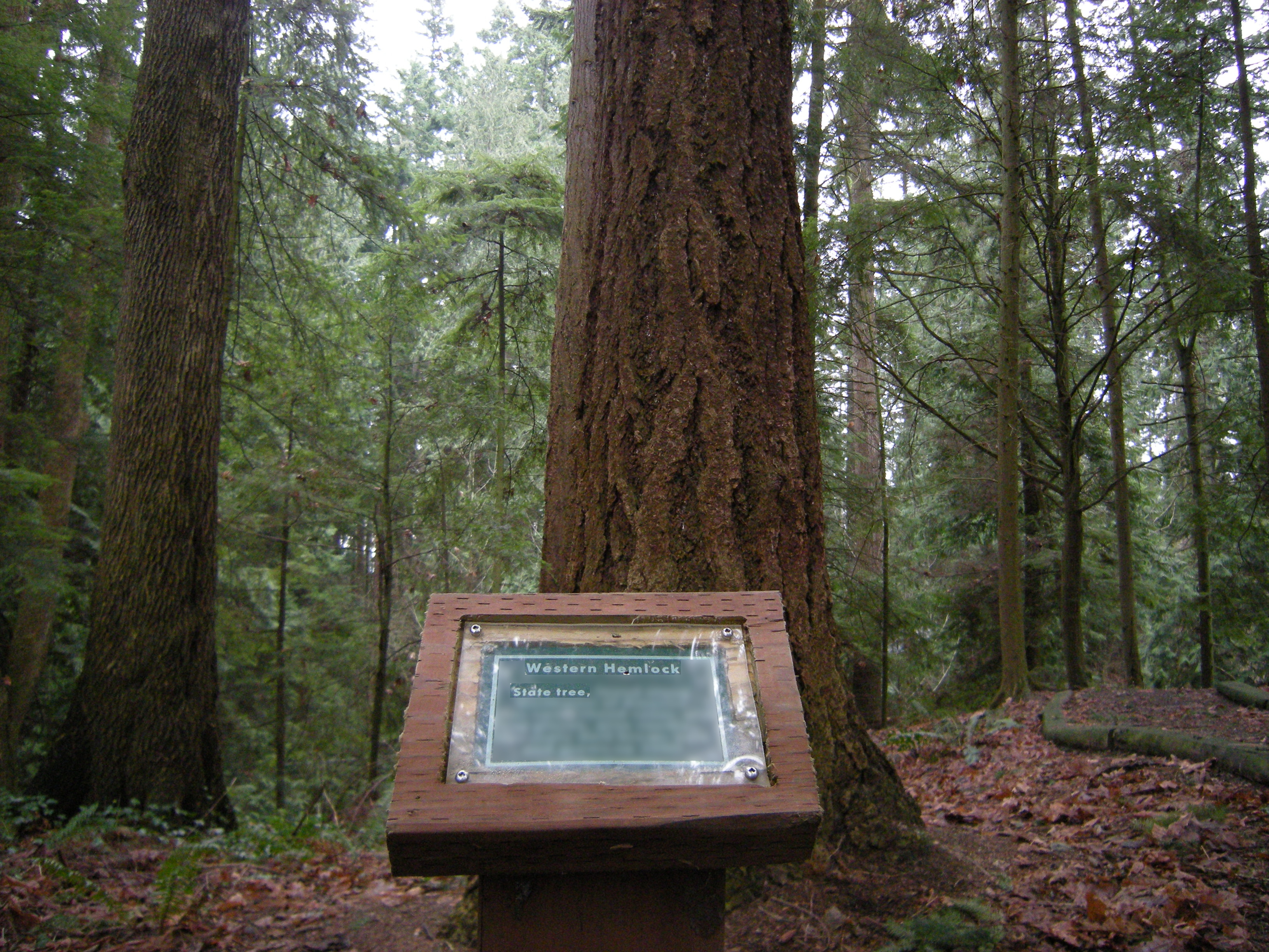 On a nature trail in Forest Park, Everett, Washington, USA, there are signs identifying different types of trees (in this case, Western Hemlock)